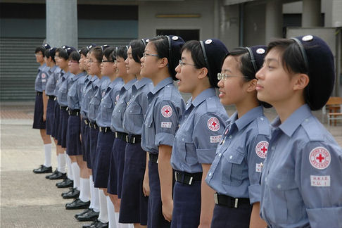 Hong Kong Redcross Youth 2006